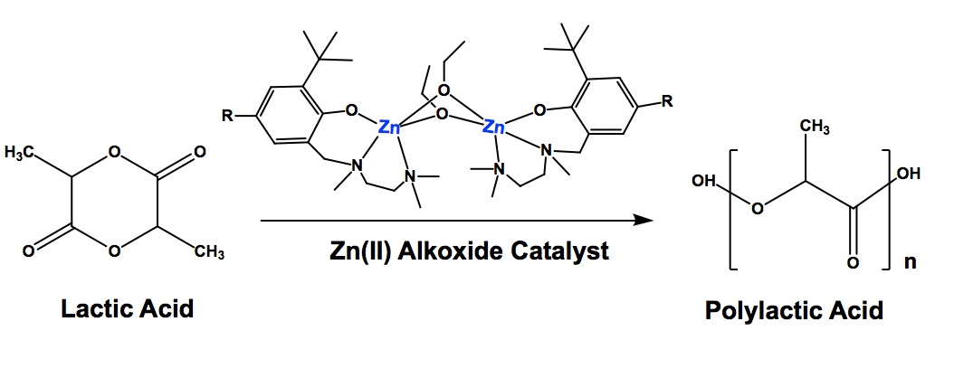 The polymerization of lactic acid to polylactic acid using a Zn(II) alkoxide catalyst